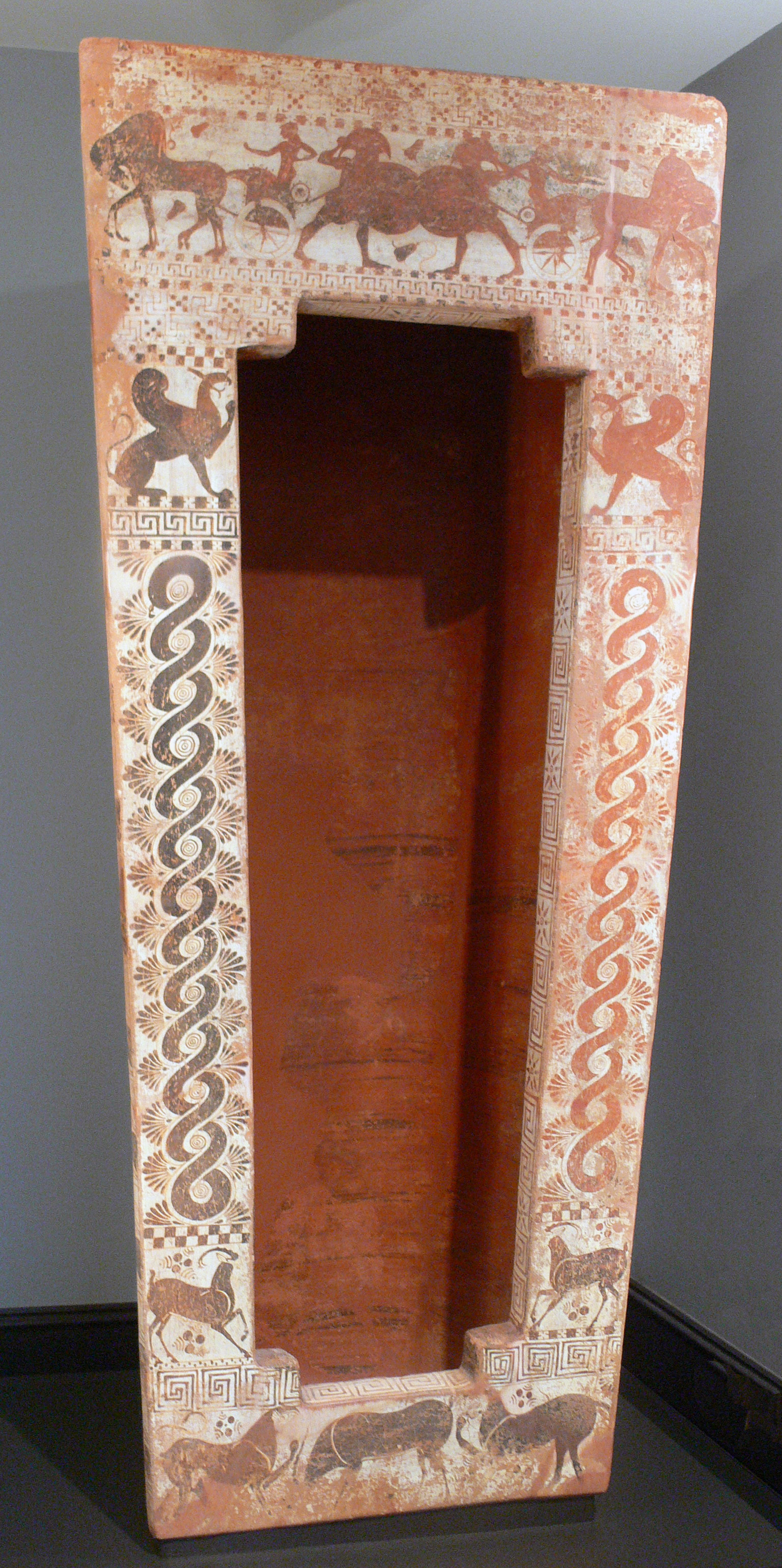 terracotta sarcophagus.